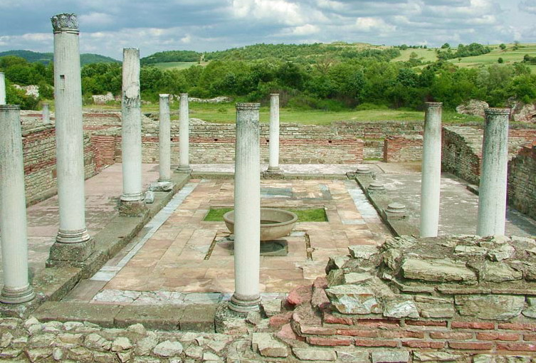 Felix Romuliana imperial palace early IV century